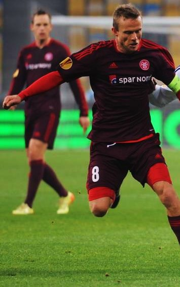 Rasmus Würtz